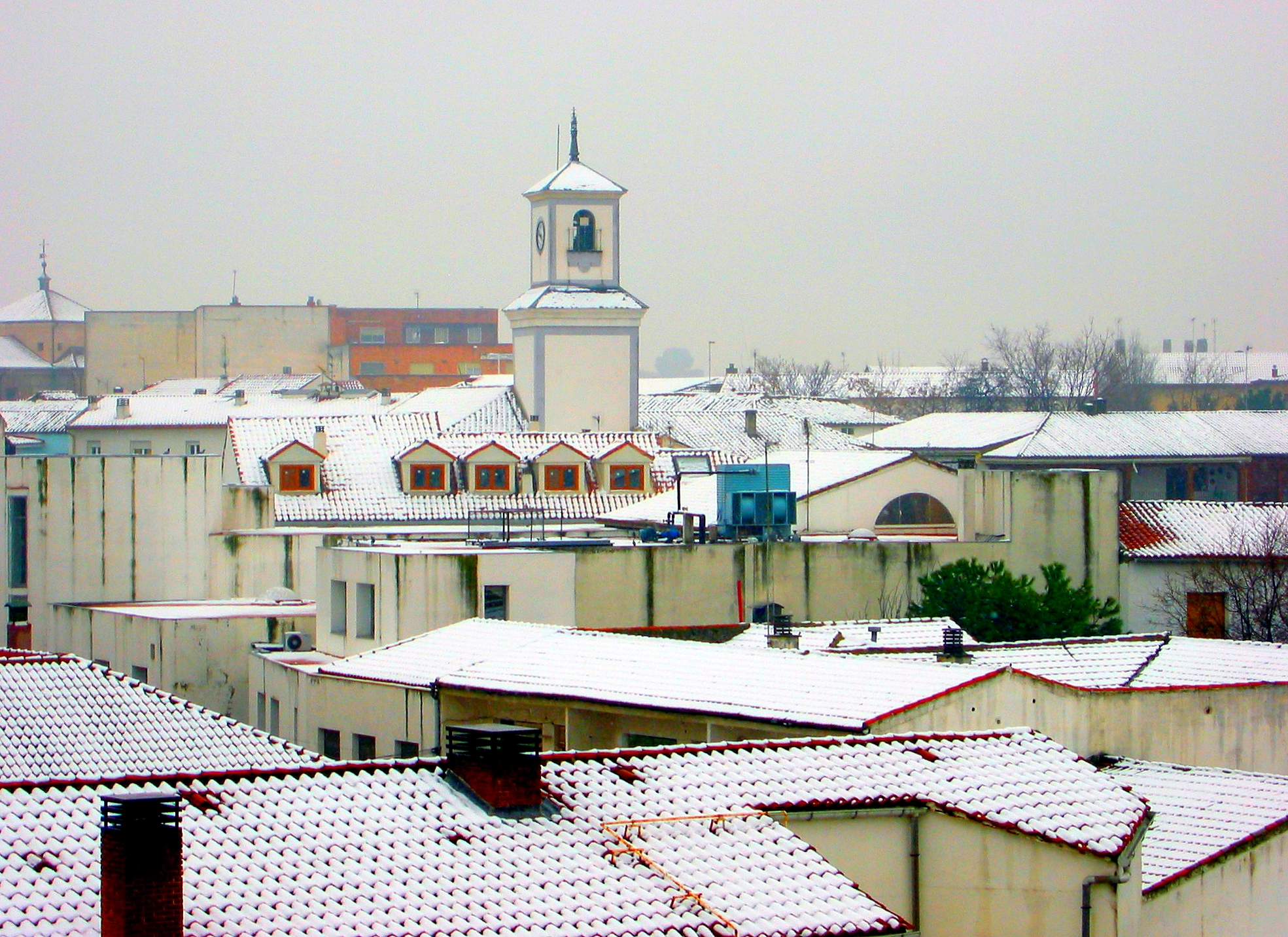 Snowfall in Valdemoro (Community of Madrid, Spain).